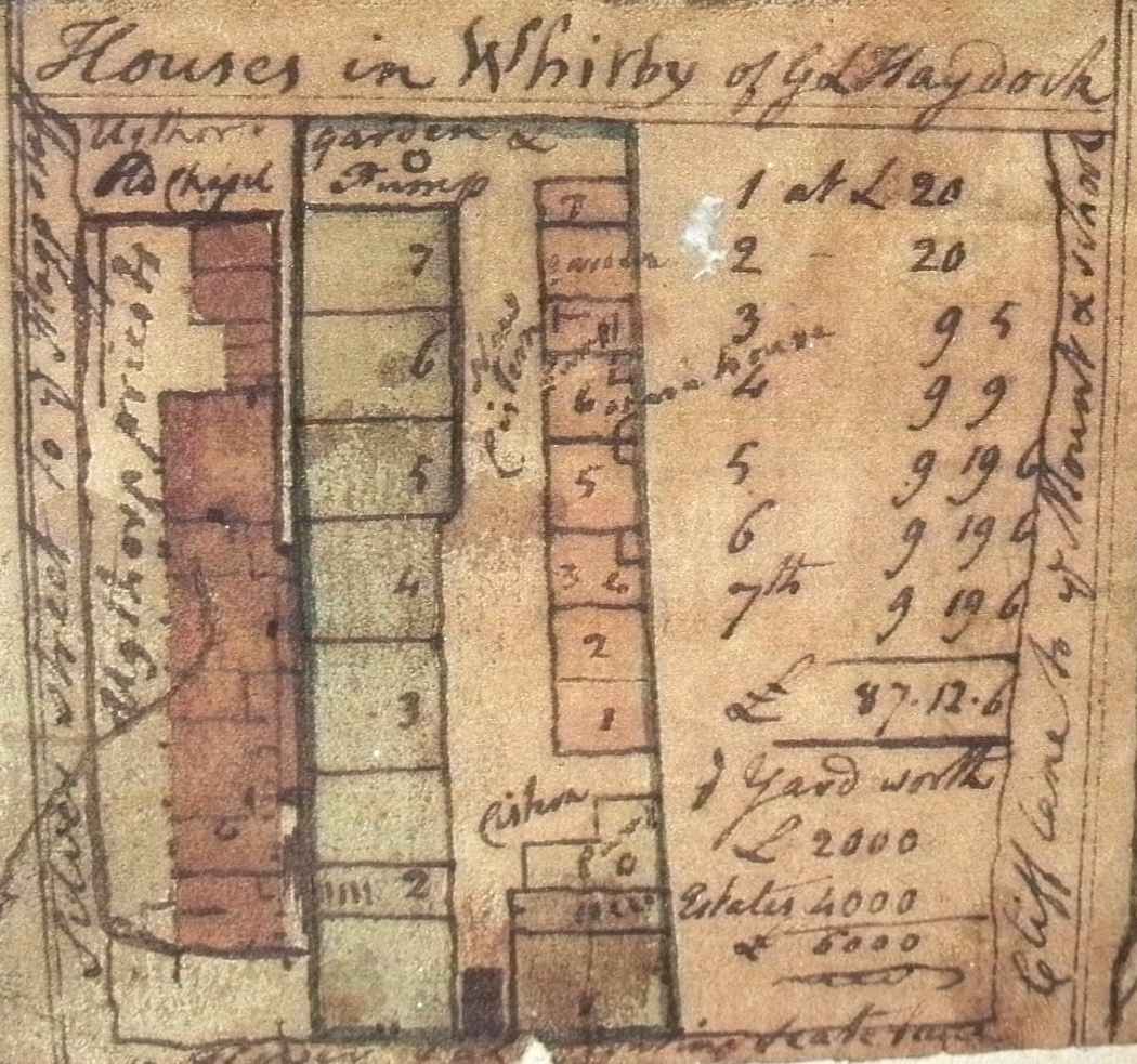 Detail from a larger drawing showing property holdings of George Leo Haydock in Whitby